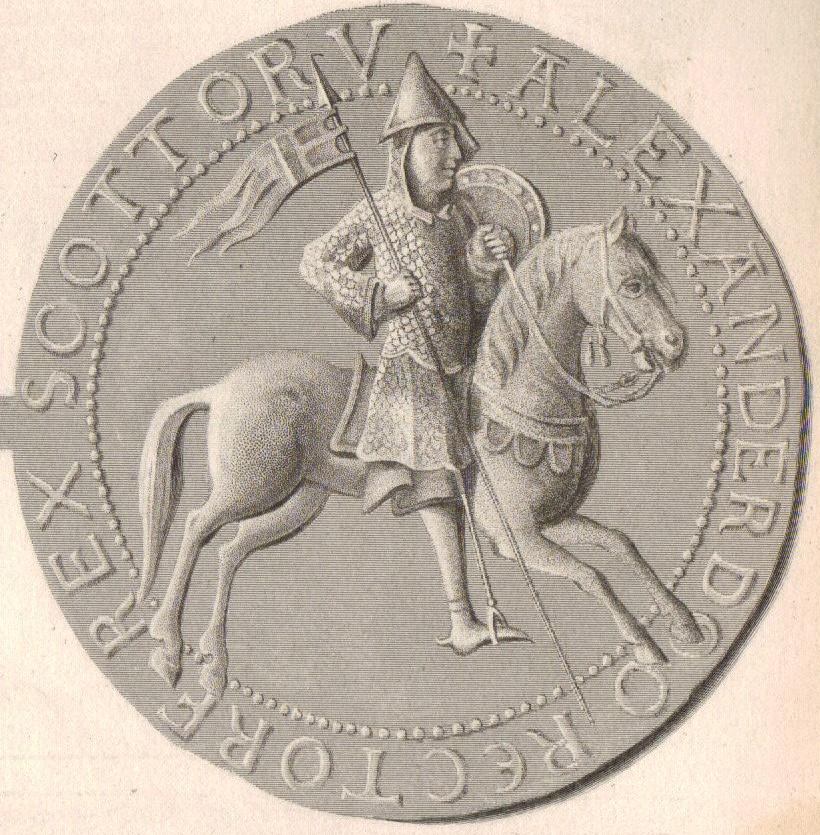 Steel engraving and enhancement of the Great Seal of Alexander I, King of Alba (Scotland).